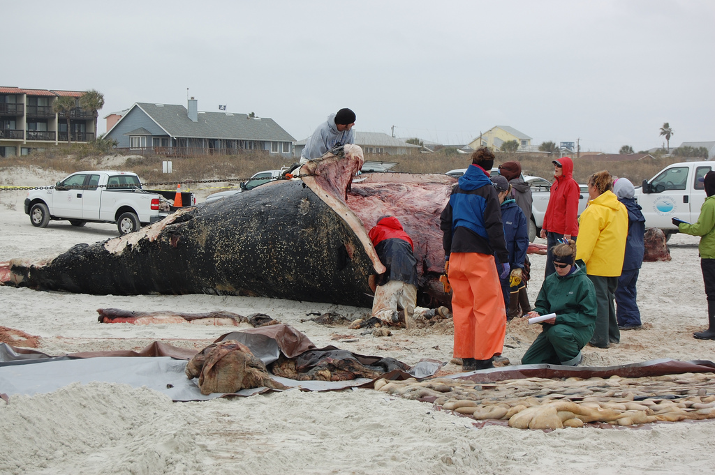 A 2-year-old North Atlantic right whale died off the shore of St. Augustine Feb. 3, 2011, and was dragged onto the beach for an autopsy. Oceanic and wildlife officials helped untangle the 30-feet long, 15,000-pound whale from rope and other debris three other times since Christmas day. Picture of whale alive here: More details